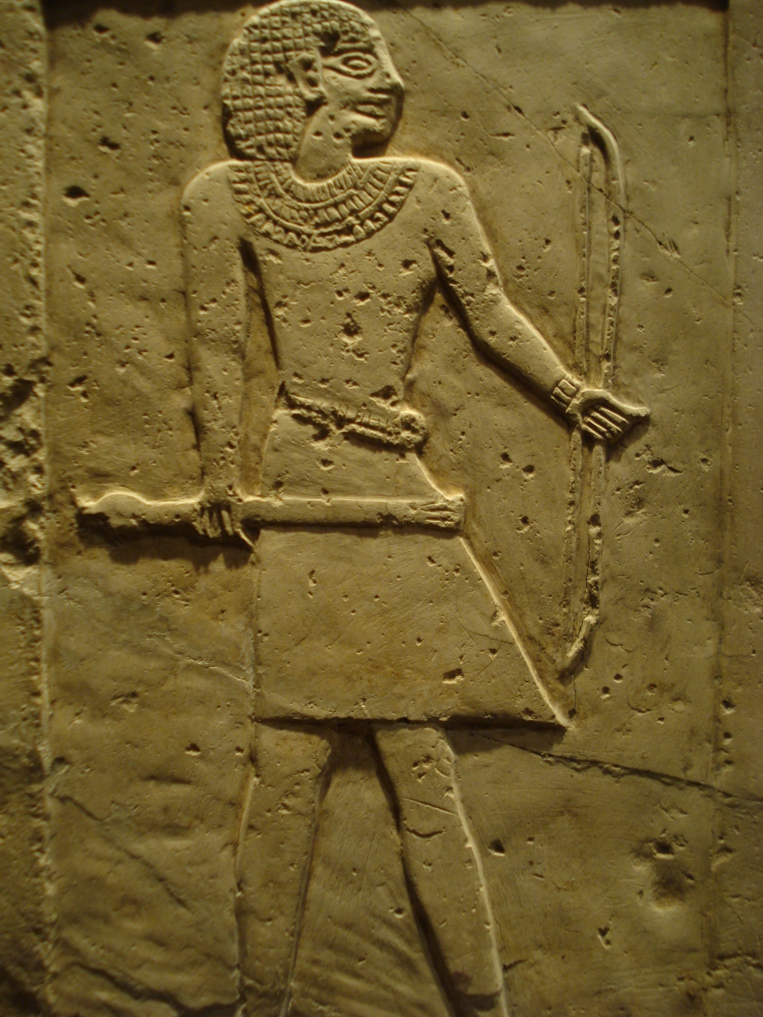 Funerary stele of bowman Semin. Limestone. Middle Kingdom, Dynasty XI, c. 2120-2051 BC. From El-Tarif.